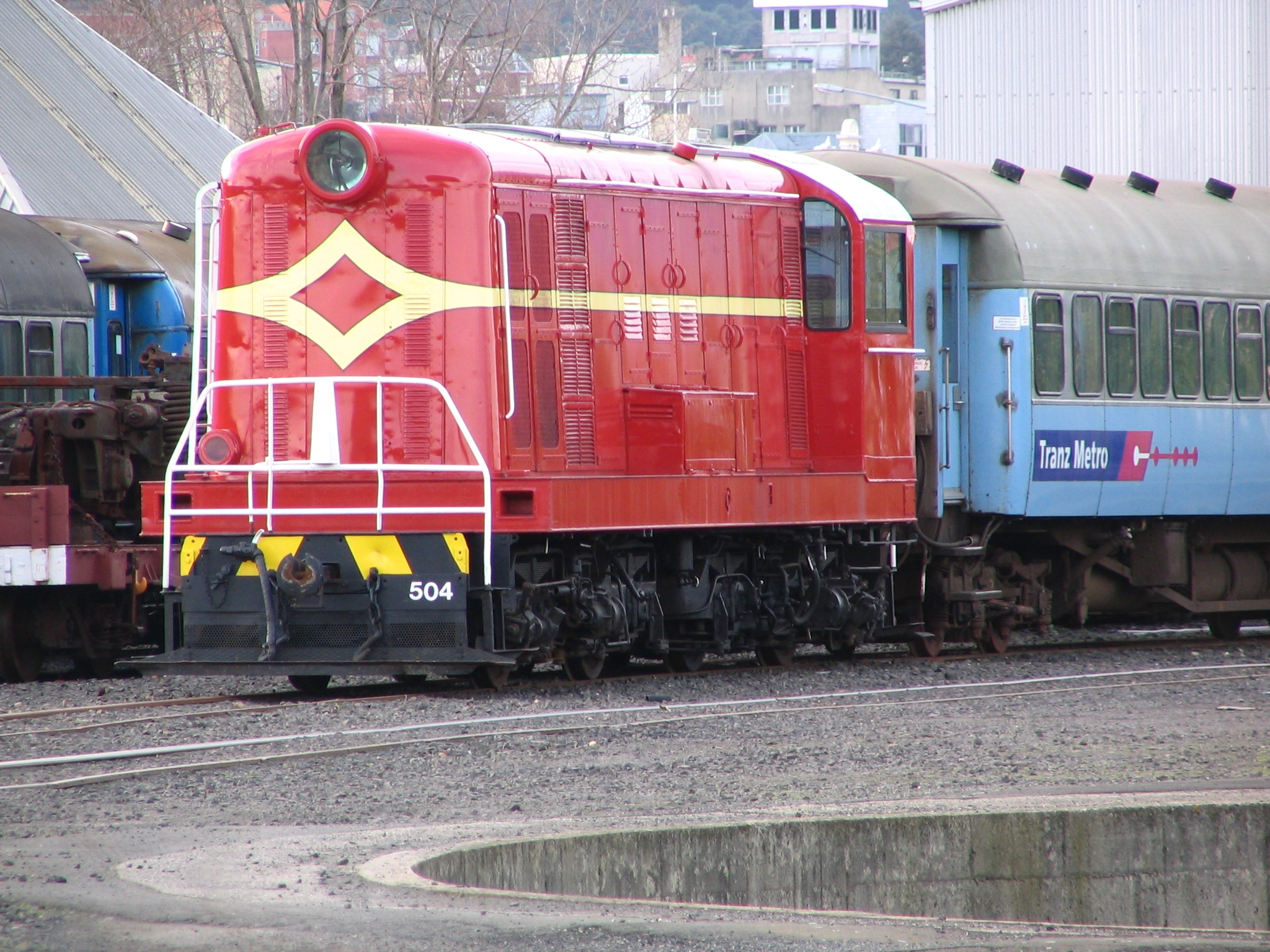 NZR DE class in Dunedin, New Zealand